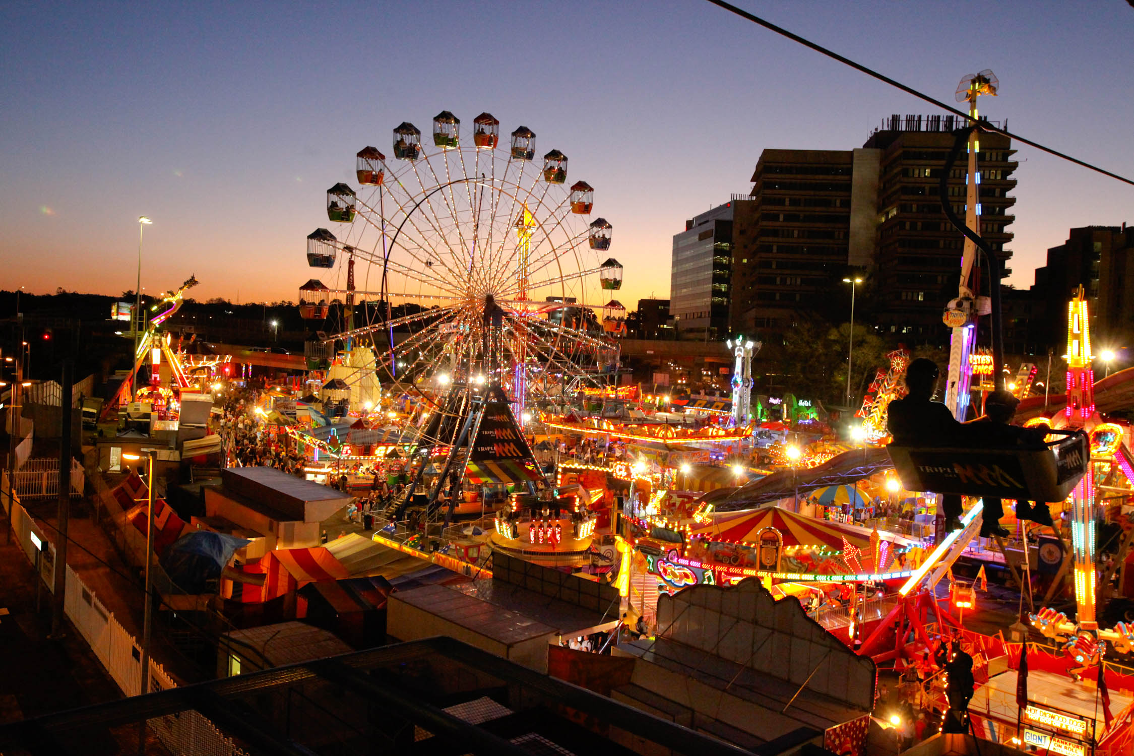 Sideshow Alley at the Royal Queensland Show sourced from Maki's Art